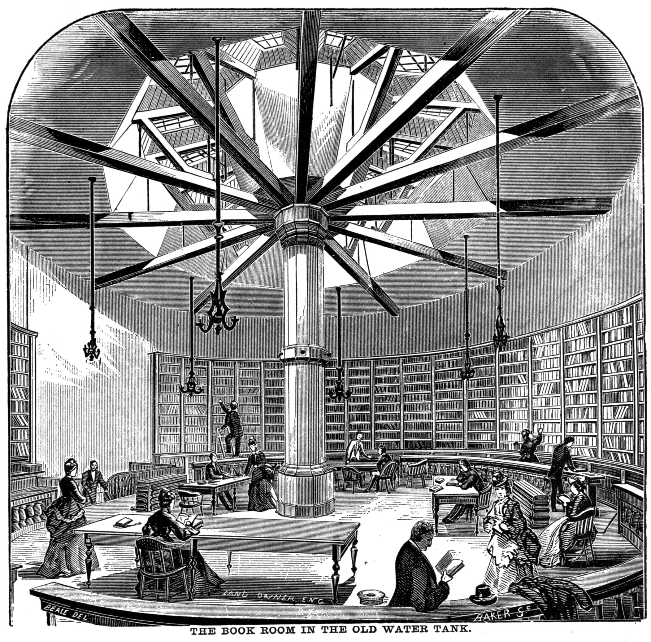 The first thing the new Library committee did was to secure an abandoned iron water supply reservoir as a temporary store room for the books from the English book donation for the recently burned city. The "Tank" stood on a thirty-five-foot high masonry base in the rear of the temporary city hall hastily erected at LaSalle and Adams streets, and locally known because of nesting birds as "The Rookery," which present-day citizens will recognize as the name of the stately office building now occupying that site. Circular in shape, with a diameter of sixty and a height of thirty feet, and having but recently demonstrated that it was superlatively fire-proof, the Tank was regarded as a happy find, and the gift books were stored in it, as they arrived, pending developments. On March 18th, 1872, an ordinance of the City Council established the Public Library under the new law, and on April 8th Mayor Medill appointed the the first Board of Directors. Failing more suitable quarters, the Directors proceeded to convert the Tank into a book room by lining its walls with shelves, having a capacity of 18,000 volumes, and cutting a skylight in the roof. A temporary new story was added to the City Hall connecting with the book room by a bridge, and here, on New Year's Day, 1873, a library reading room was opened to the public with 3,157 volumes upon the shelves. Circulation of books for home use was not begun until May, 1874, after removal to more commodious and accessible space at Wabash avenue and Madison street.